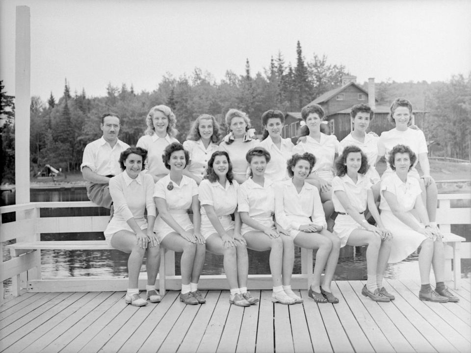 We see girls and monitor sitting on a terrace on the water. They are at the summer camp "Wooden Acres".